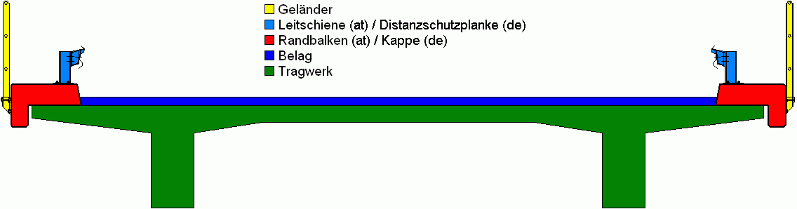 pattern of the parts of a bridge, description in german